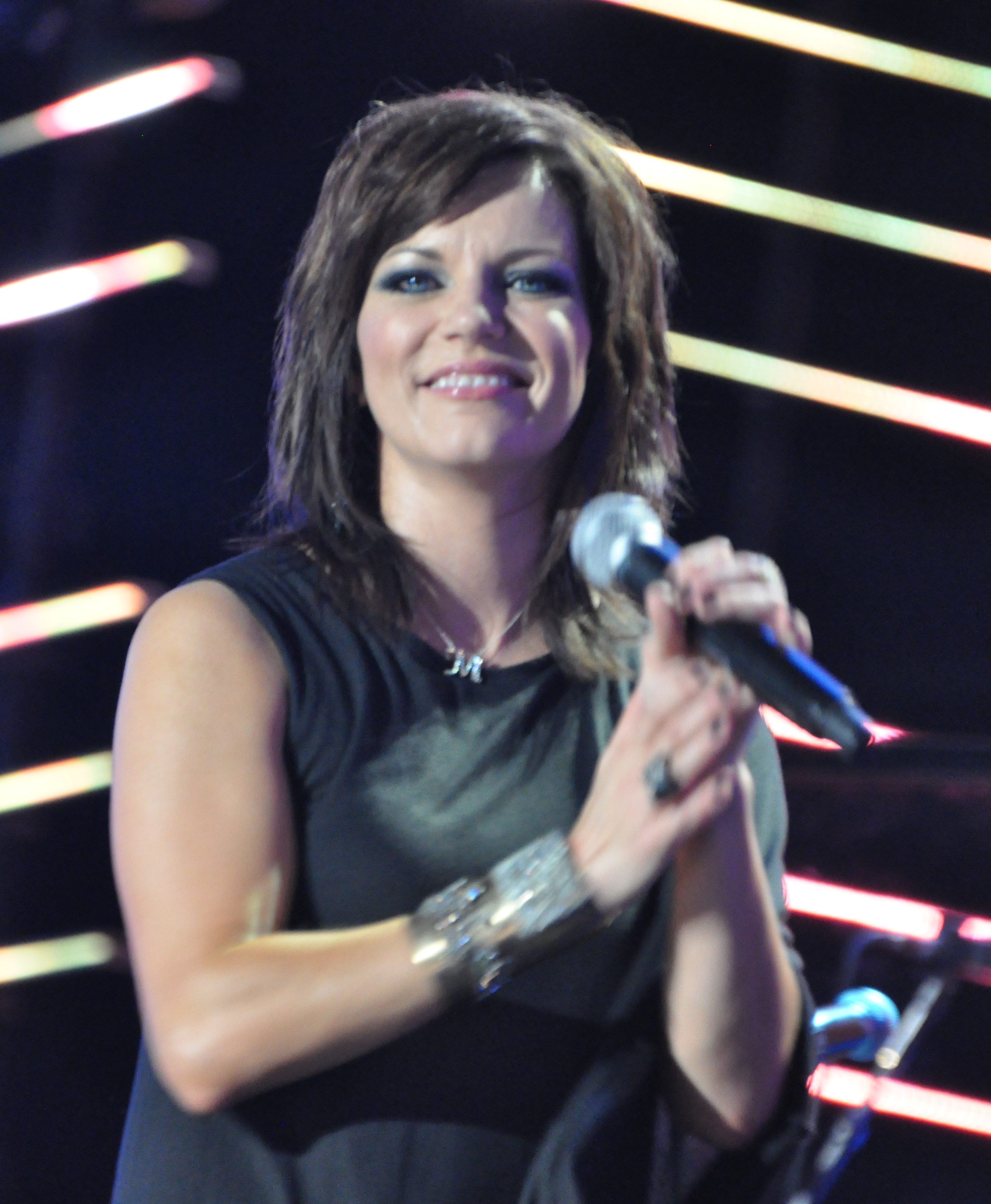 Martina McBride performing in June 2010